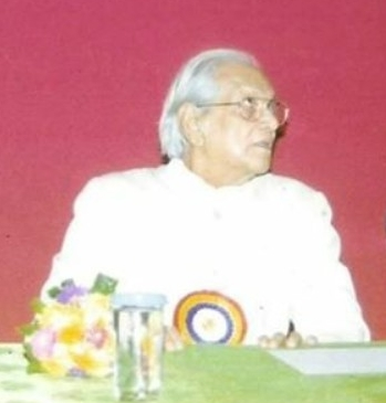 Image cropped on Sultanpuri